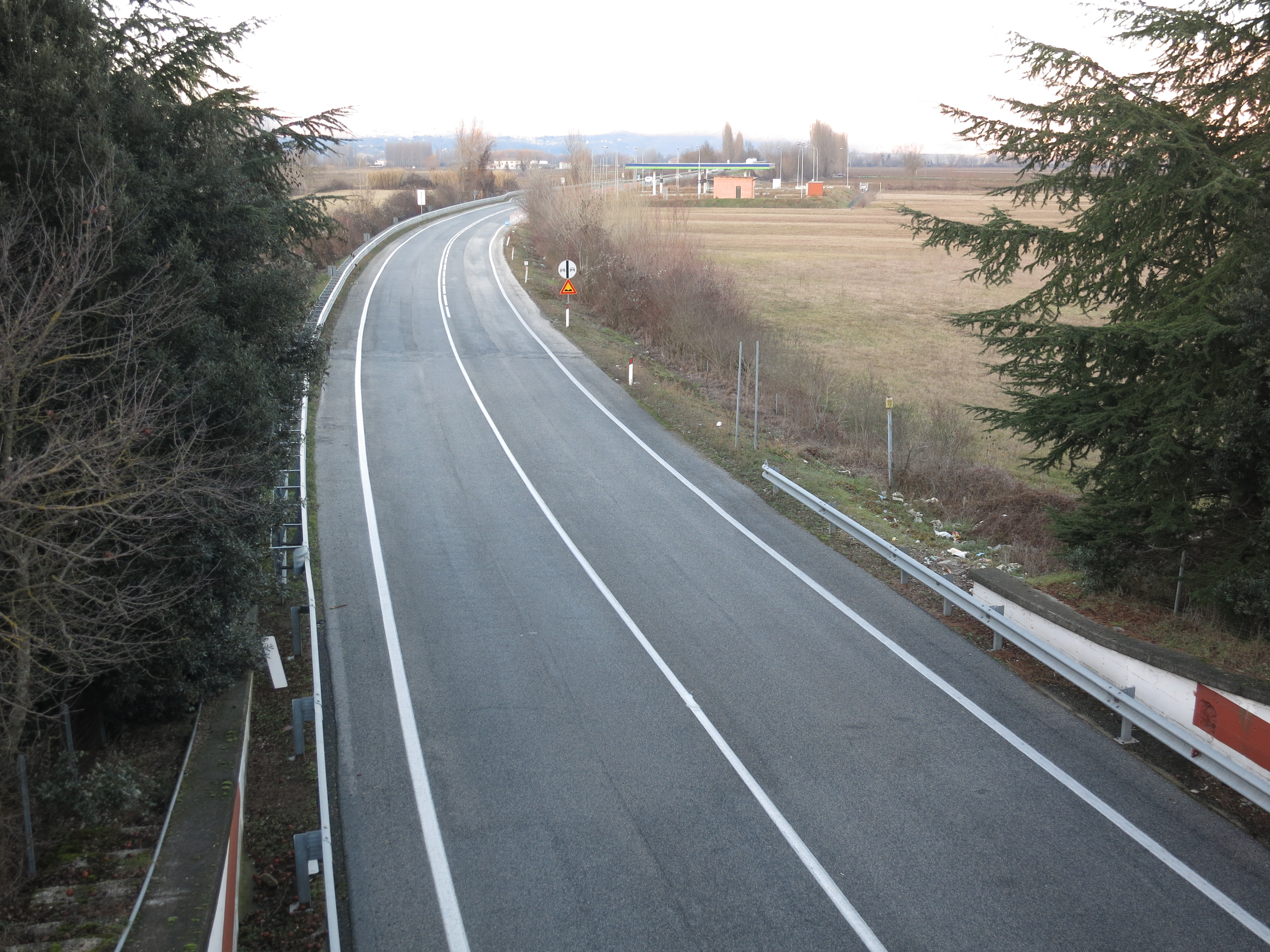 The Rieti-Terni highway (Italian State Road n. 79 "Ternana") at the north exit of Terria tunnel. Picture taken from Reopasto's provincial road, which passes over Terria tunnel.